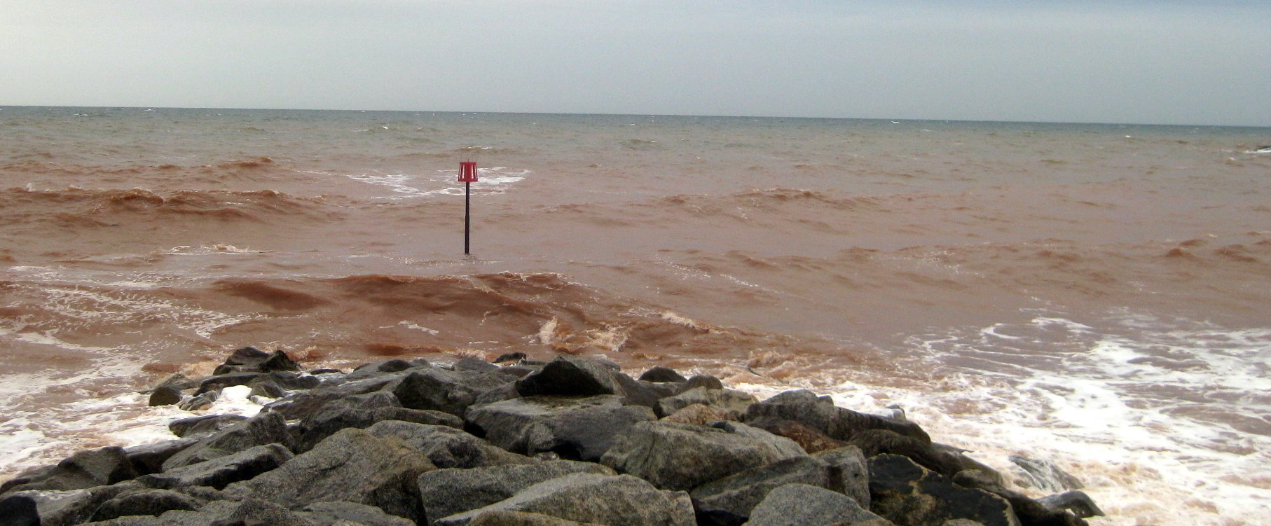 Budleigh Salterton sea front